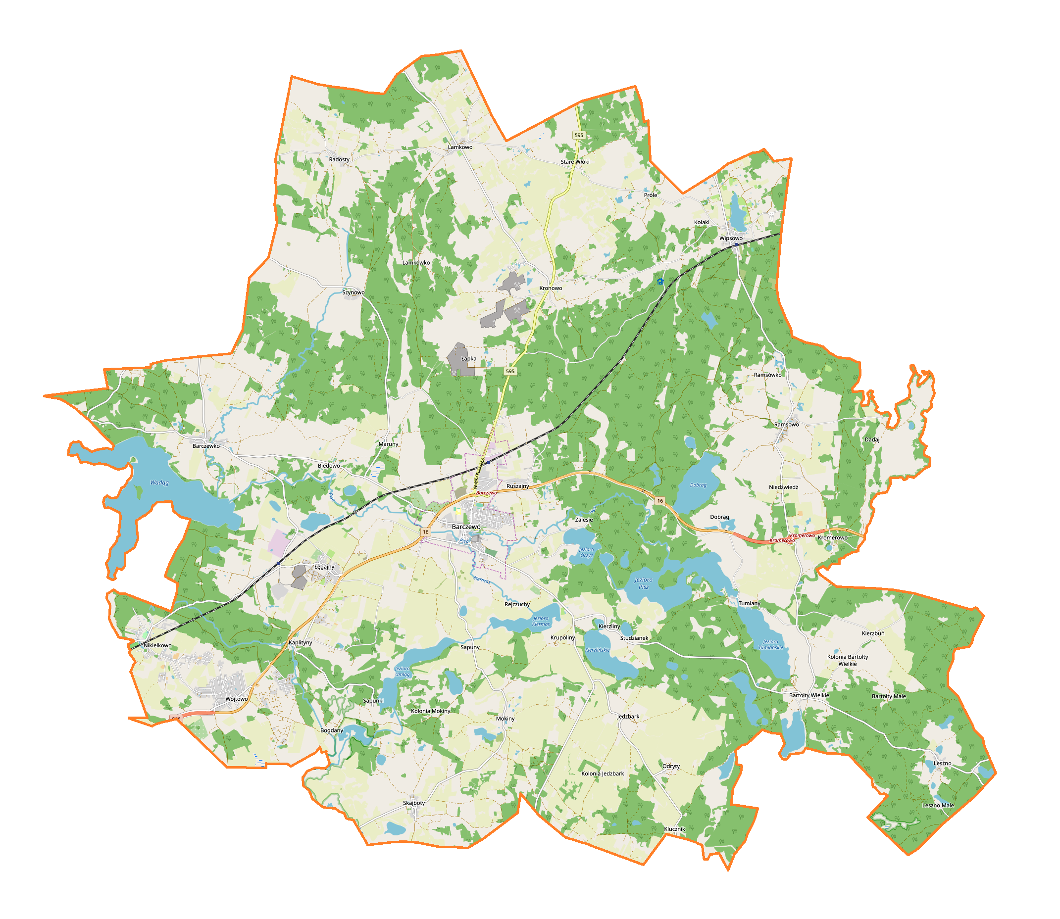 Location map